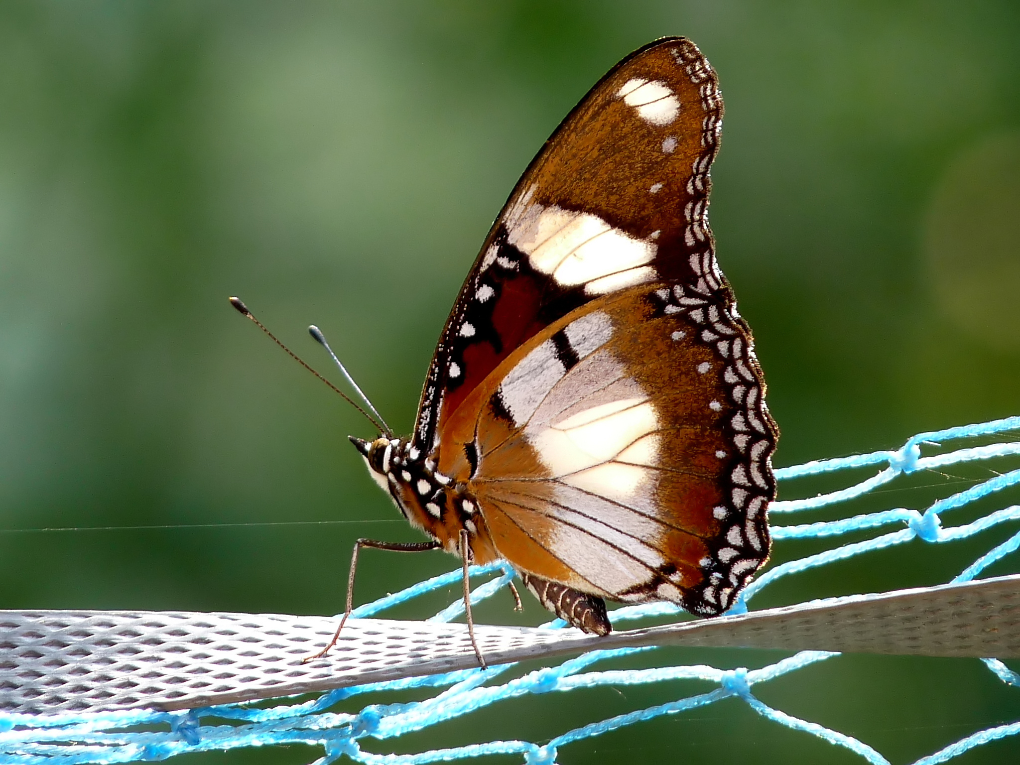 Hypolimnas misippus, Danaid Eggfly, Mimic, or Diadem, is a widespread species of nymphalid butterfly. It is well known for polymorphism and mimicry. Males are blackish with distinctive white spots that are fringed in blue. Females are in multiple forms that include male like forms while others closely resemble the toxic butterflies Danaus chrysippus and Danaus plexippus. They are found across Africa, Asia, and Australia. Taken at Kadavoor, Kerala, India